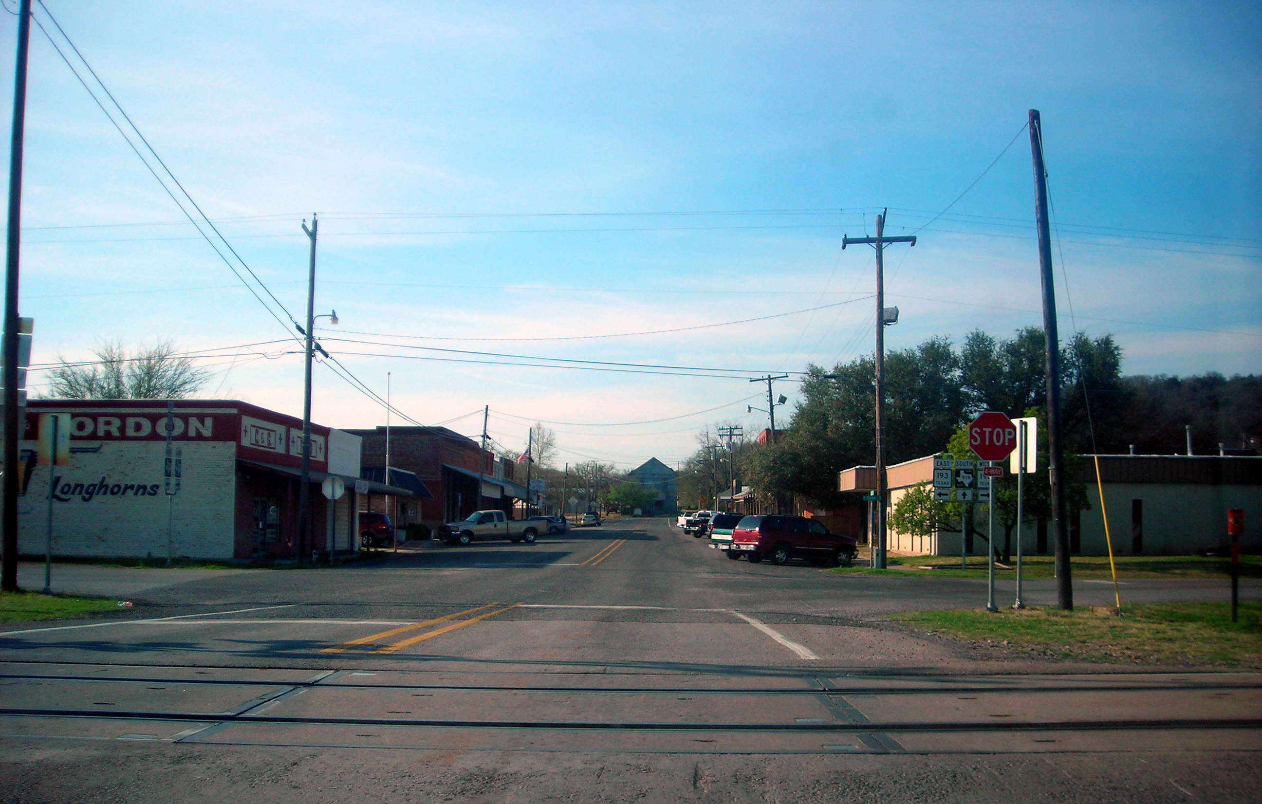 Downtown Gordon, Texas.